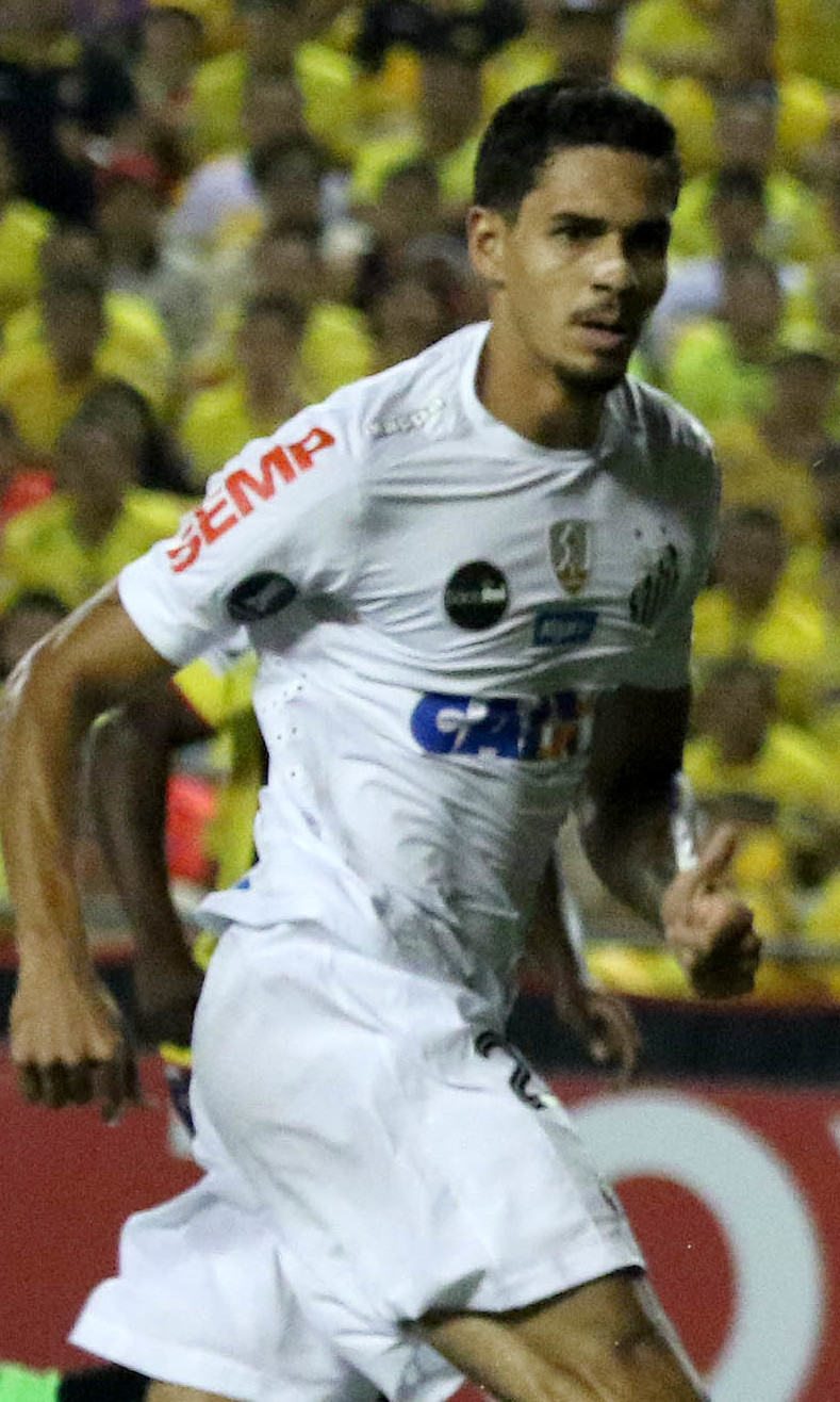 Guayaquil, 13 de septiembre del 2017 (Andes).-En el estadio Monumental Barcelona de Ecuador enfrenta al Santos de Brasil en partido de ida por cuartos de final de la Copa LibertadoresFoto:Andes/César Muñoz